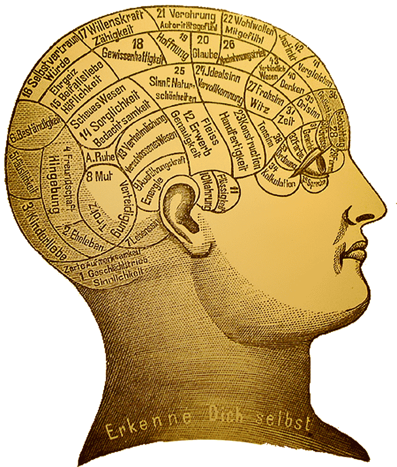 Phrenology